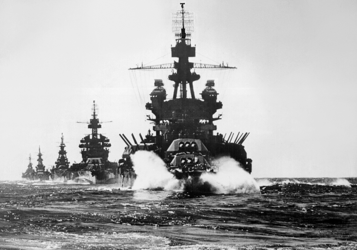 The U.S. Navy battleship USS Pennsylvania (BB-38) leading USS Colorado (BB-45) and the cruisers USS Louisville (CA-28), USS Portland (CA-33), and USS Columbia (CL-56) into Lingayen Gulf, Philippines, in January 1945.